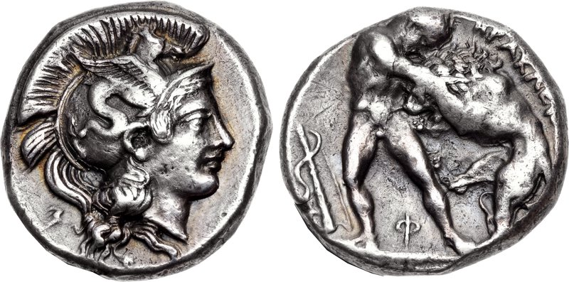 Lucania, Heraclea. Circa 420/15-390 BC. AR stater (19mm, 8.02 g, 10h). Head of Athena right, wearing crested Attic helmet decorated with hippocamp; small retrograde Σ to lower left Herakles standing right, wrestling the Nemean Lion; club and bow to left, HPAKΛEI[ΩN] to right, Φ below.